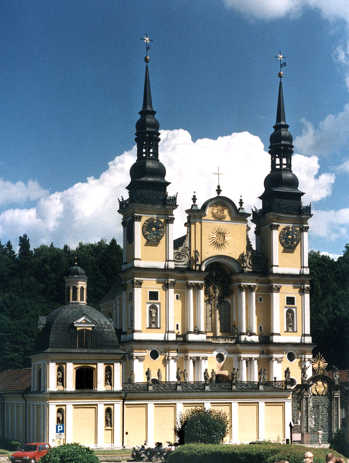 Święta Lipka, (Poland, Warminian-Masurian Voivodship), view of sancturay of St. Mary